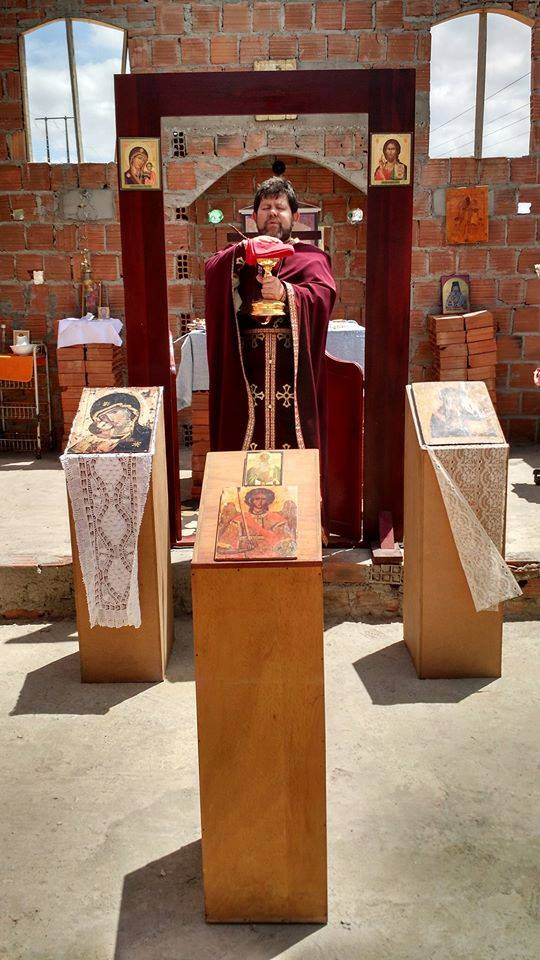 Fr. Jairo Carlos, from the Serbian Orthodox Church, celebrates Divine Liturgy in the construction site of the St. John Chrysostom Parish, in Caruaru (Pernambuco), 2017.